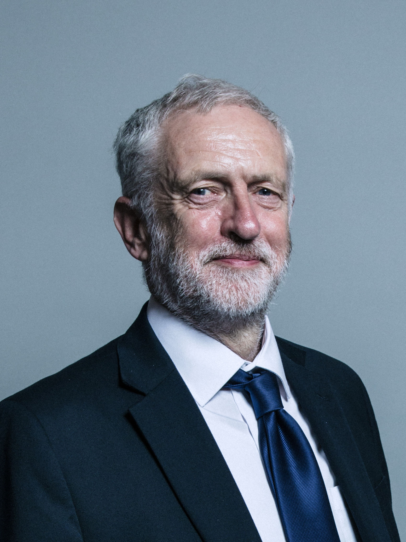 Official portrait of Jeremy Corbyn